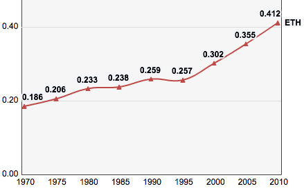 Trends in the Human Development Index for the country, 1970-2010